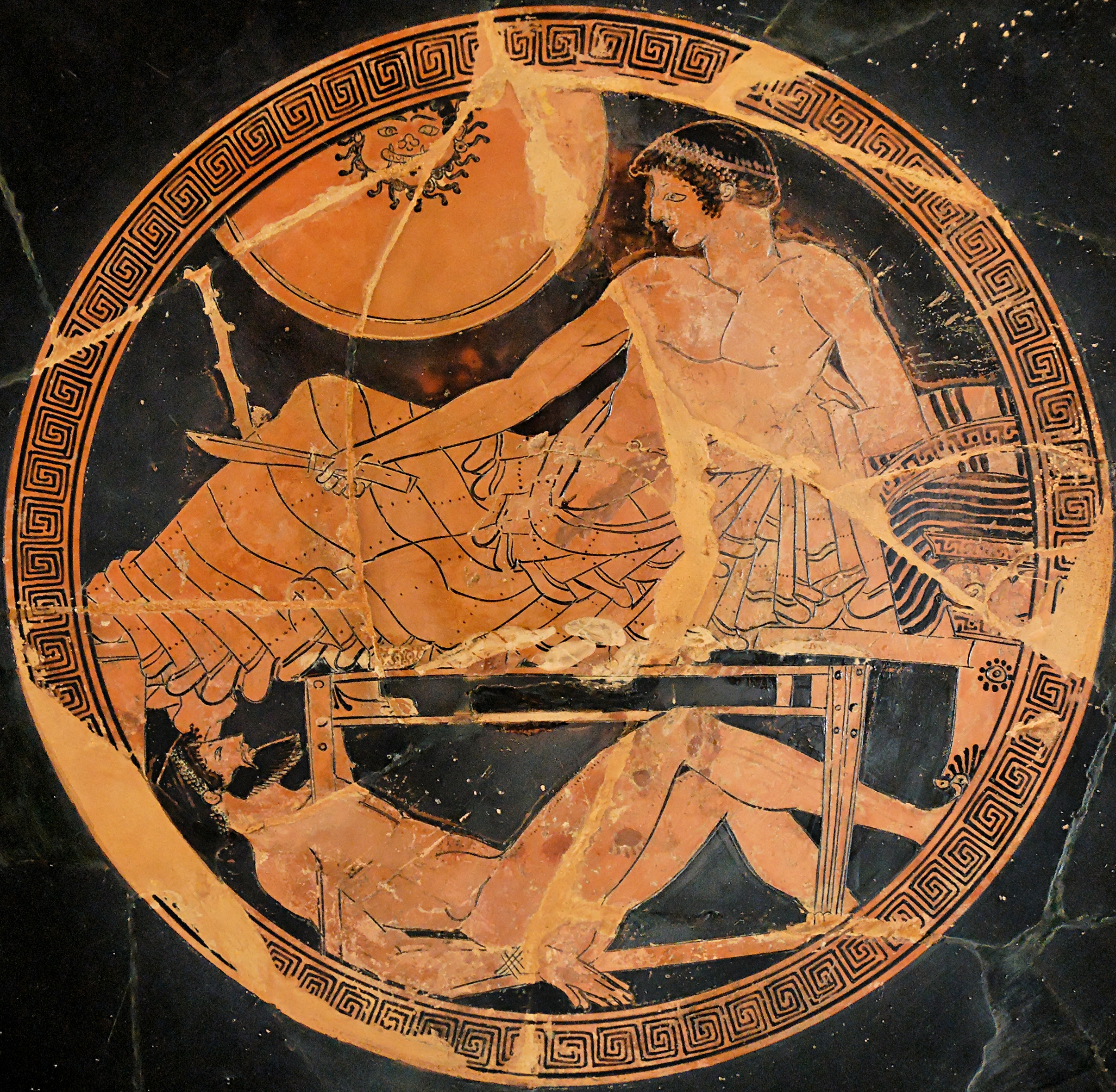 Achilles keeping Hector's corpse. Tondo from an Attic red-figured cup, ca. 490–480 BC.